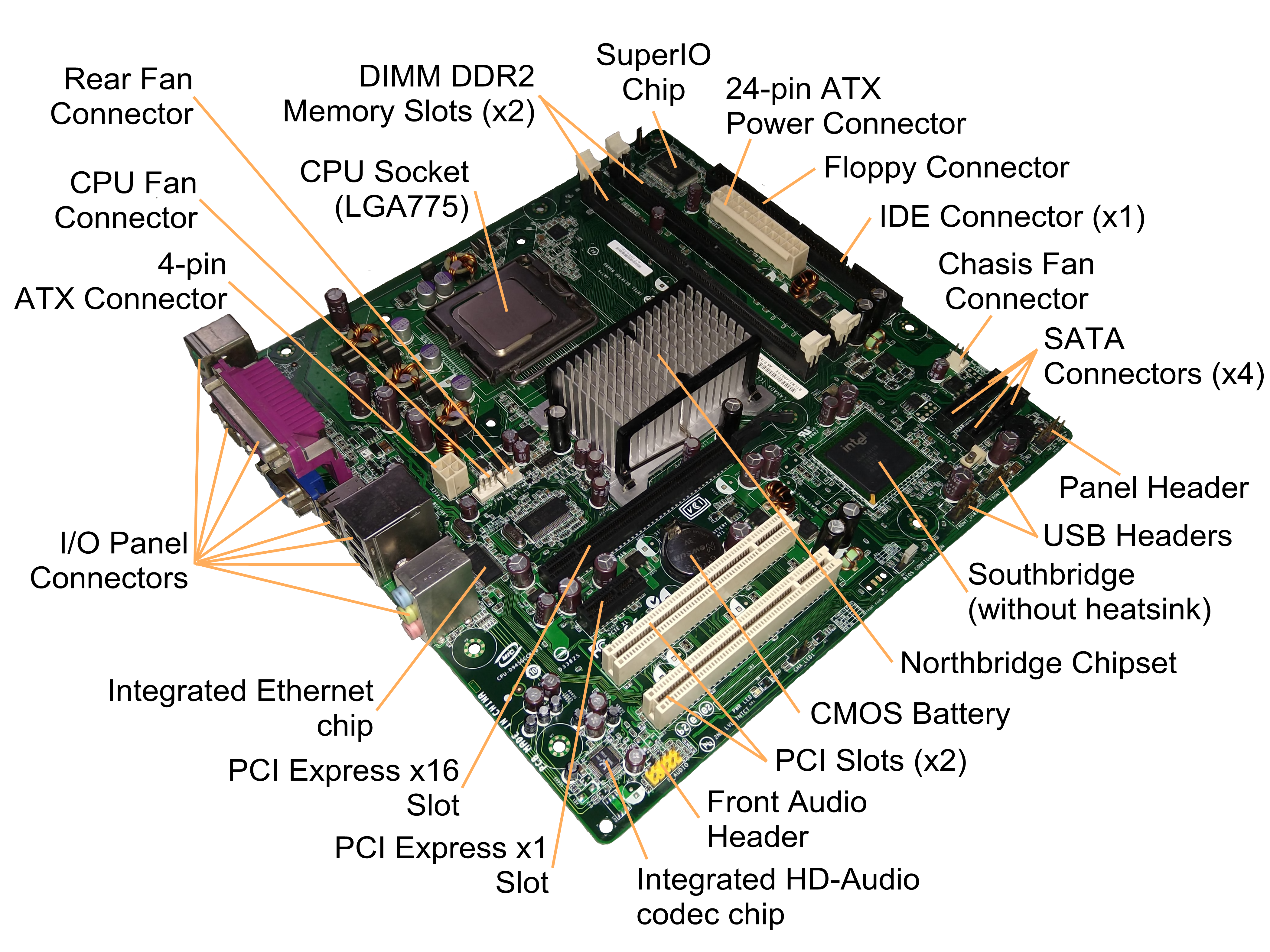 Intel D945GCCR motherboard showing its typical components and interfaces, a Pentium Dual-Core E2220 2.40Ghz is installed on this model.